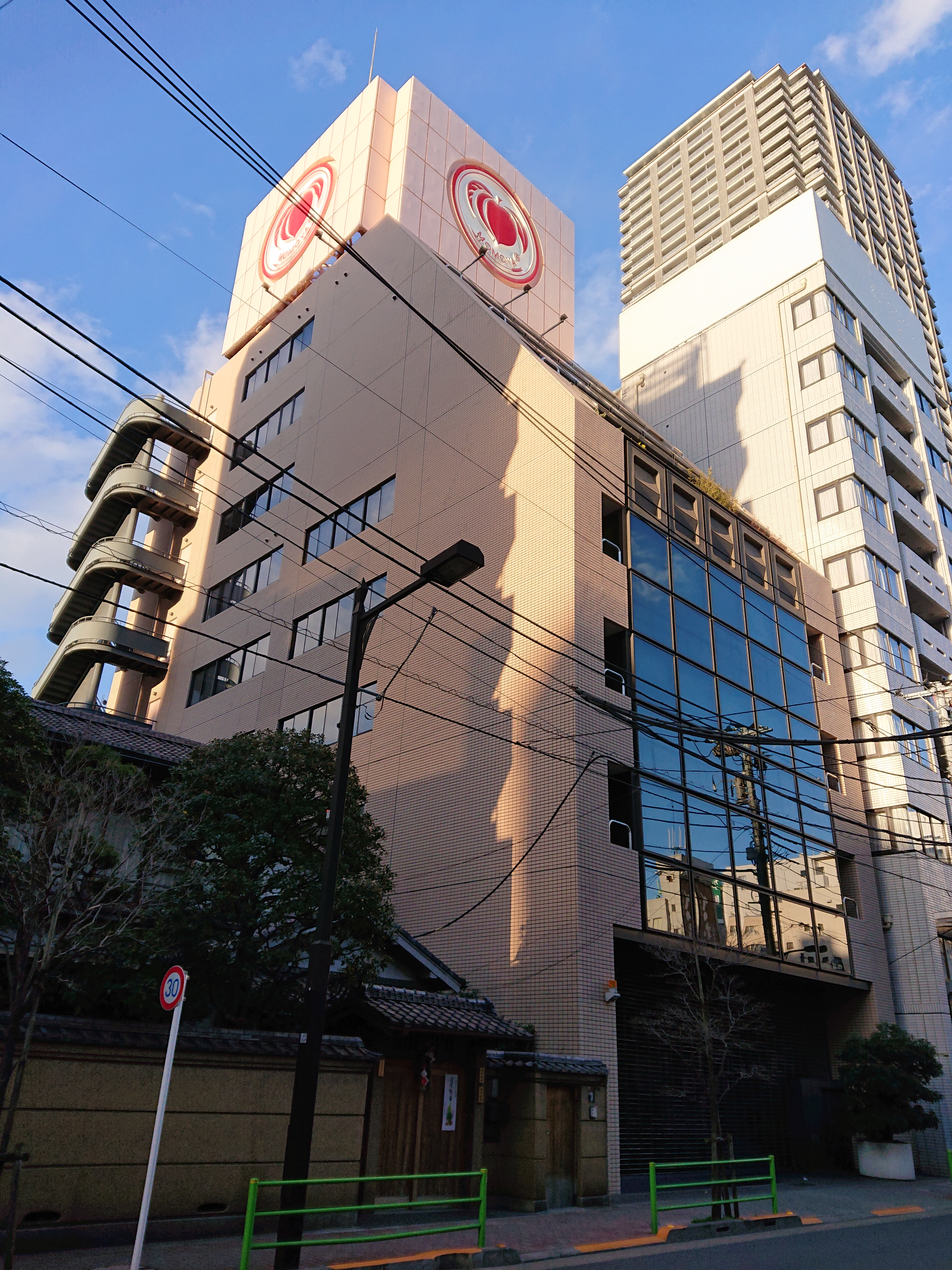 Momoya (桃屋), located at 2-16-2 Nihonbashi-Kakigaracho, Chuo, Tokyo, Japan